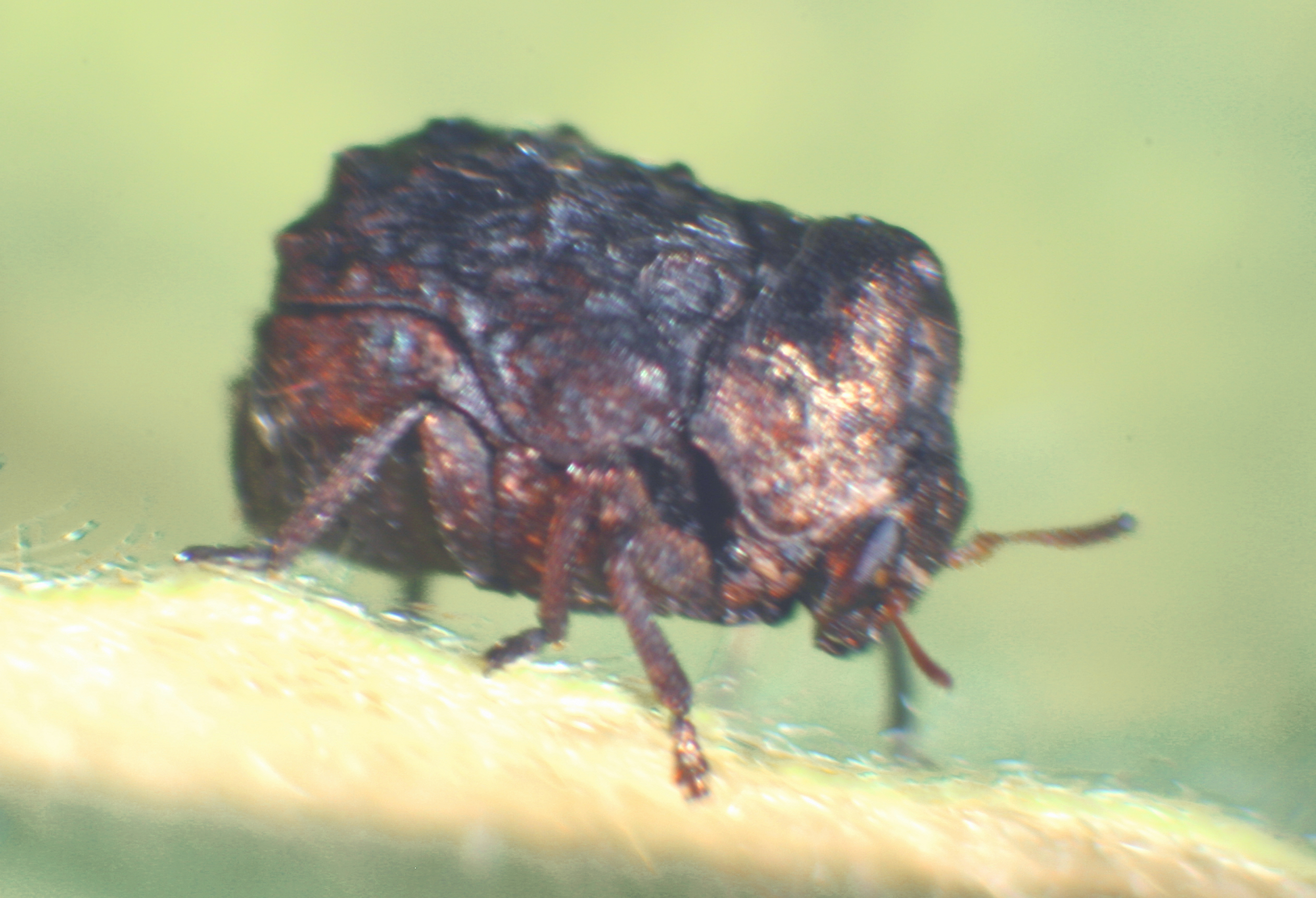 Neochlamisus bebbianae adult on its natve host: Salix bebbiana Willow.